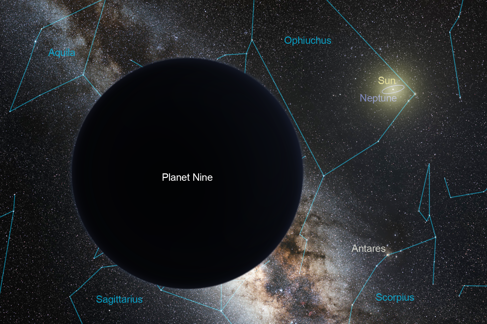 Artist's impression of Planet Nine as an ice giant eclipsing the central Milky Way, with a Sun-like star in the distance.The sky view and appearance are based on the conjectures of its co-proposer, Mike Brown. Constellations and other features are labeled. The orbit of Neptune is shown.